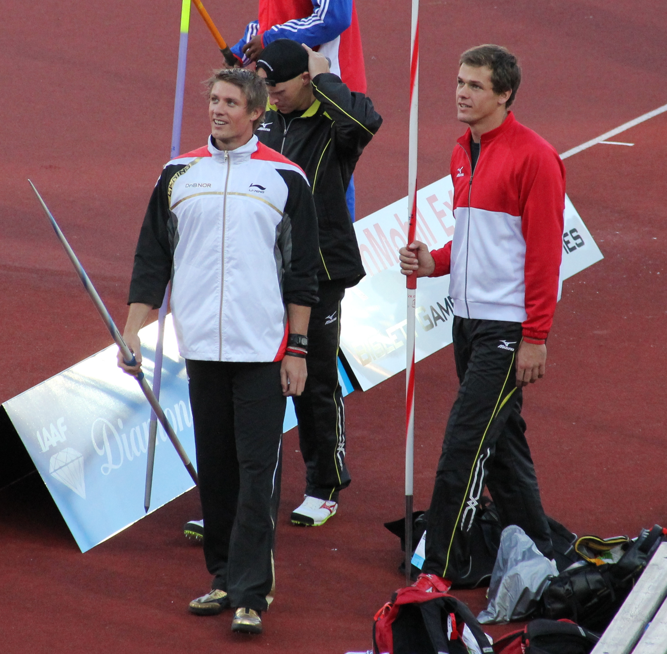 Andreas Thorkildsen and Petr Frydrych at the 2010 Bislett Games